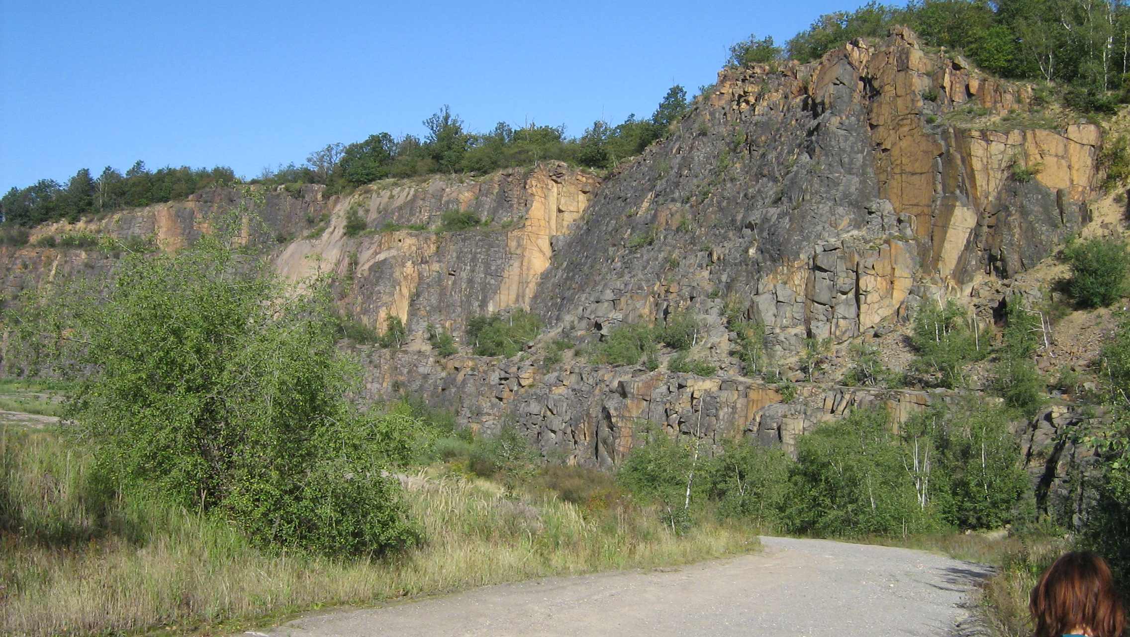 The quarry Holzberg in the mountains Hohburger Bergen